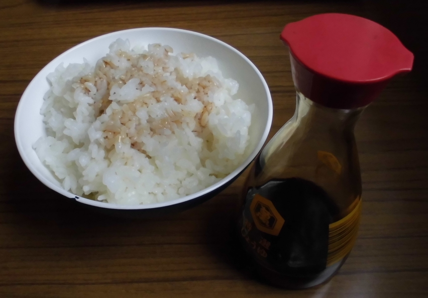 Soy sauce and Rice (醬油かけご飯)